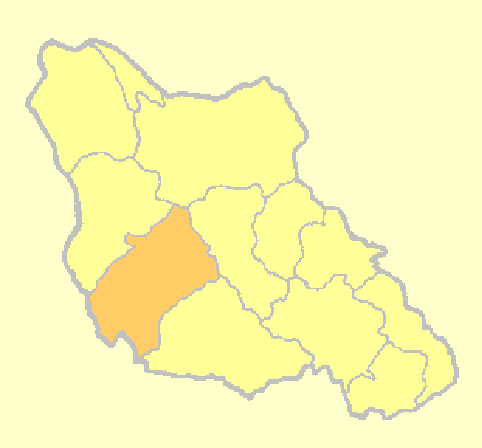 Location of Bugojno municipality in Central Bosnian Canton